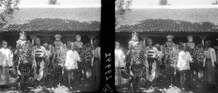 Filmstrip. Three children wearing ceremonial dresses on the occasion of their circumcision are sitting on richly decorated horses , Pasuruan, East-Java